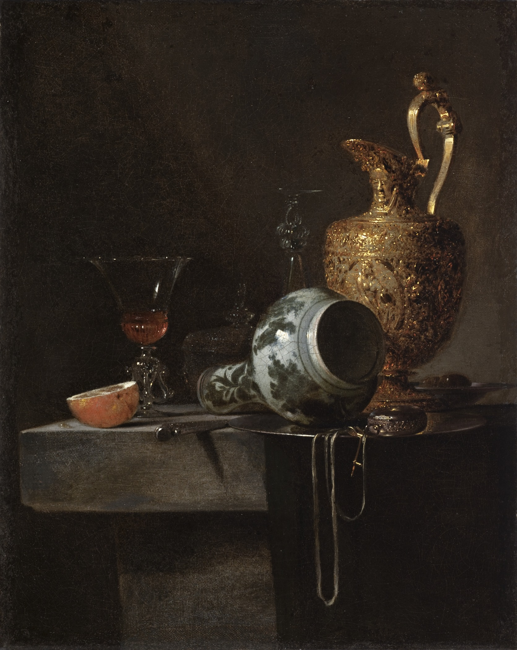 circa 1643-1644 Paintings Oil on canvas Canvas: 21 7/8 x 17 1/2 in. (55.56 x 44.45 cm); Framed: 29 1/4 x 24 3/4 x 2 in. (74.3 x 62.87 x 5.08 cm) Gift of Mr. and Mrs. Edward William Carter (M.2009.106.22) European Painting Currently on public view: Ahmanson Building, floor 3